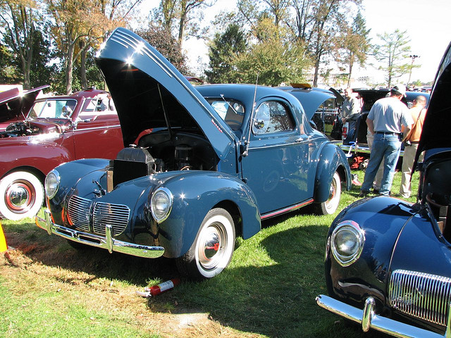 The Willys Americar was a line of automobiles produced by Willys-Overland Motors from 1937 to 1942, either as a sedan, coupe, station wagon or pick-up truck.